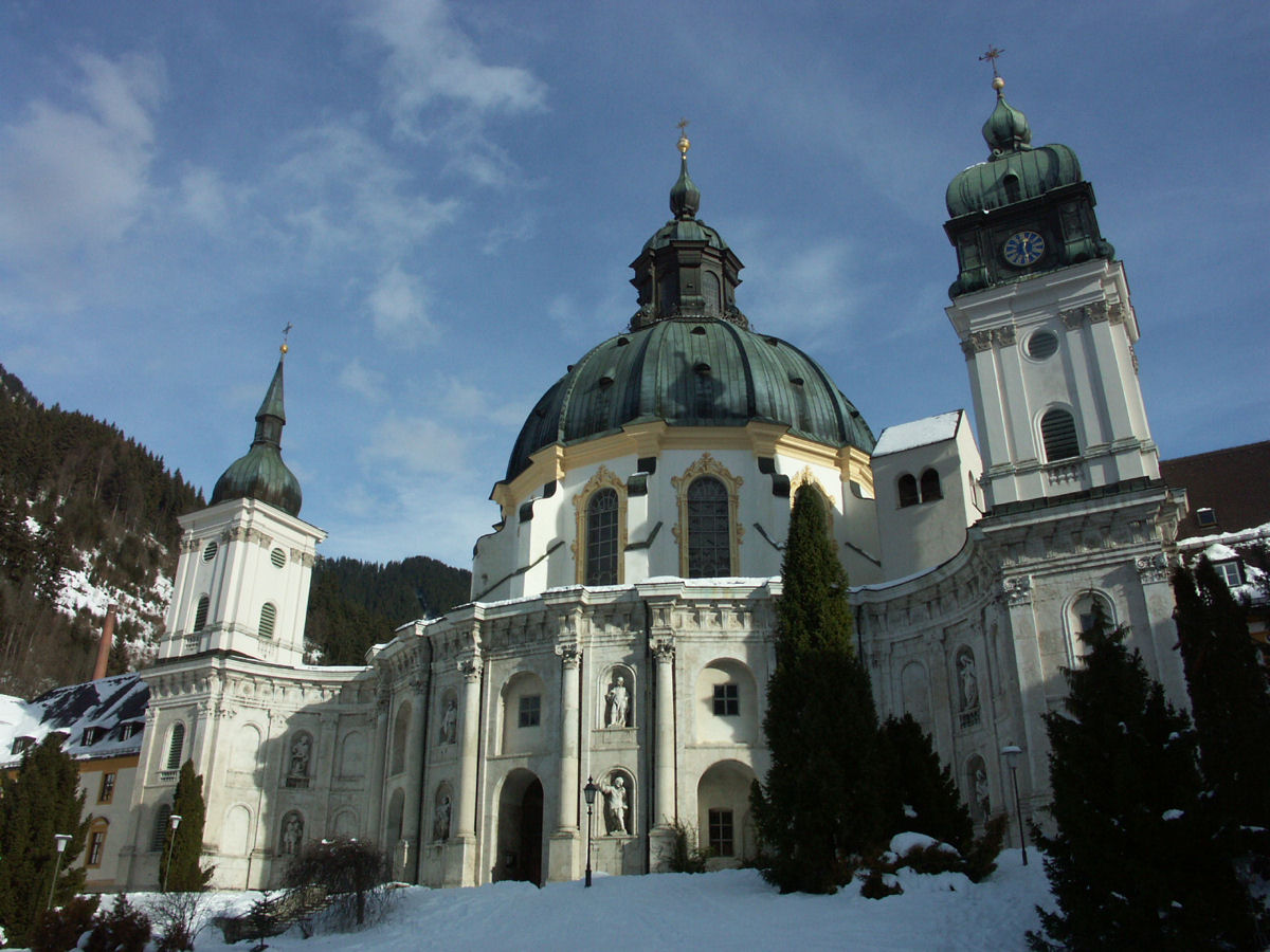 Ettal Abbey in winter Ettal Abbey Native nameKloster EttalLocationEttal, Upper Bavaria, GermanyCoordinates47° 34′ 09″ N, 11° 05′ 40″ E